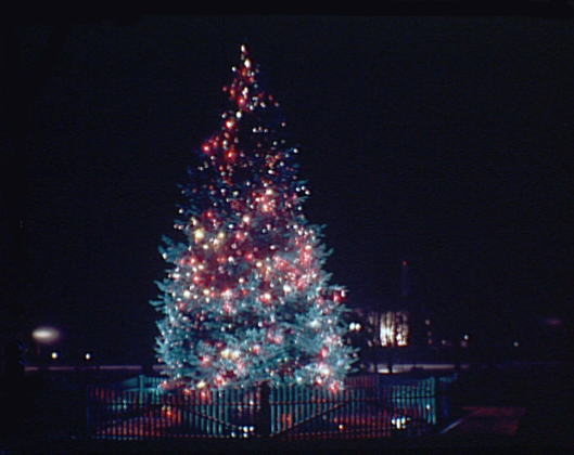 The United States National Christmas Tree in Lafayette Square in Washington, D.C., in the United States. The photo was taken some time between December 24, 1936, to January 1, 1939. In 1934, the U.S. National Christmas Tree (then called the "National Community Christmas Tree") was relocated from Sherman Plaza (south of the U.S. Treasury Building) to Lafayette Square north of the White House. The National Park Service purchased two 23-foot (7.0 m) high Fraser firs from North Carolina and planted them 18 to 23 feet (5.5 to 7.0 m) east and west of the Andrew Jackson statue. The west tree was used for the 1934, 1936, and 1938 ceremonies, and the east tree in 1935 and 1937. A temporary low octagonal fence was constructed around the 1936 tree. In the 1930s, the tree was first lit on Christmas Eve (December 24), and remained lit through New Year's Day (it was turne off around dawn on January 2). In 1939, the National Community Christmas Tree was moved back to the Ellipse.